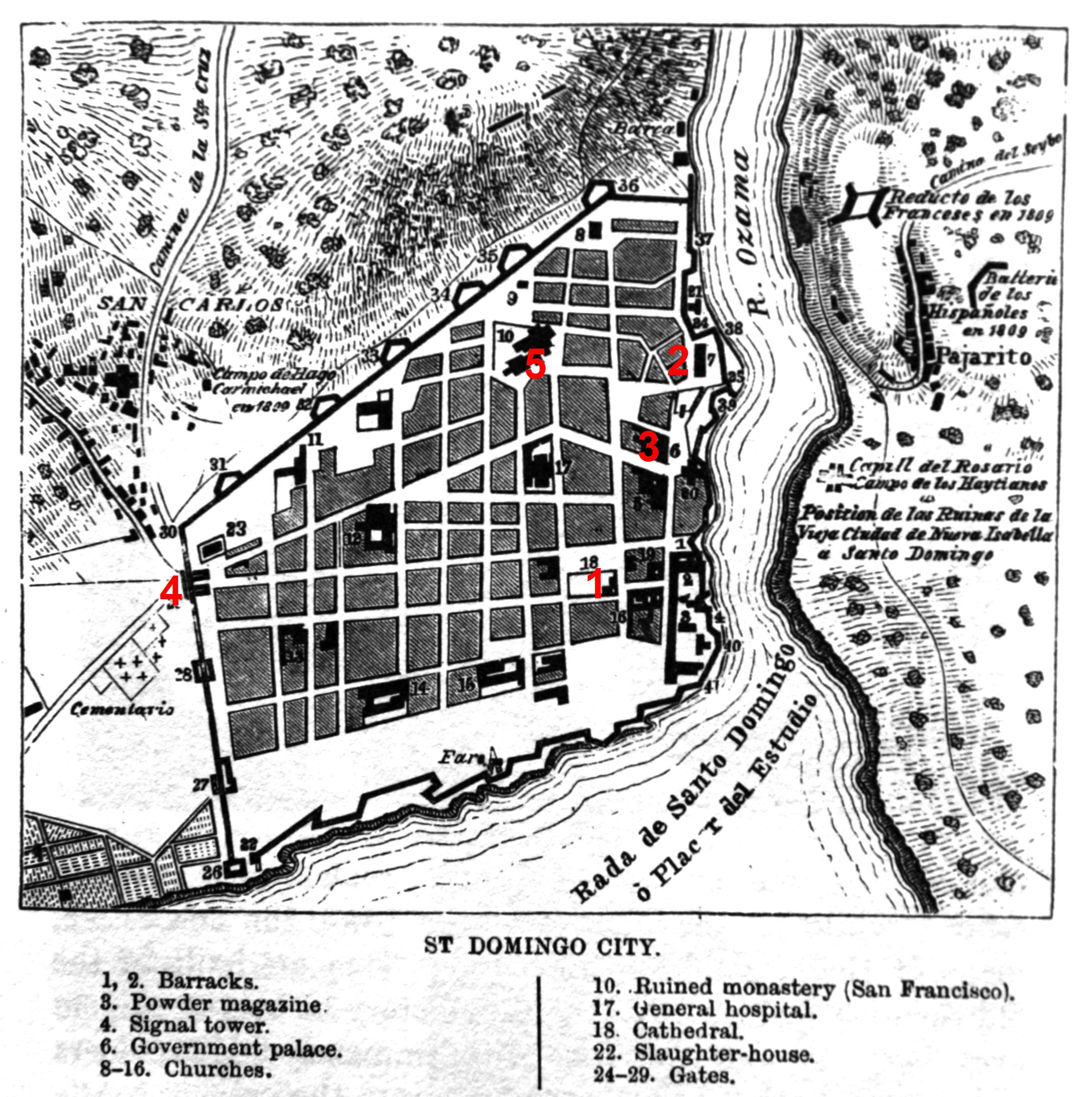 Map of Santo Domingo, Dominican Republic